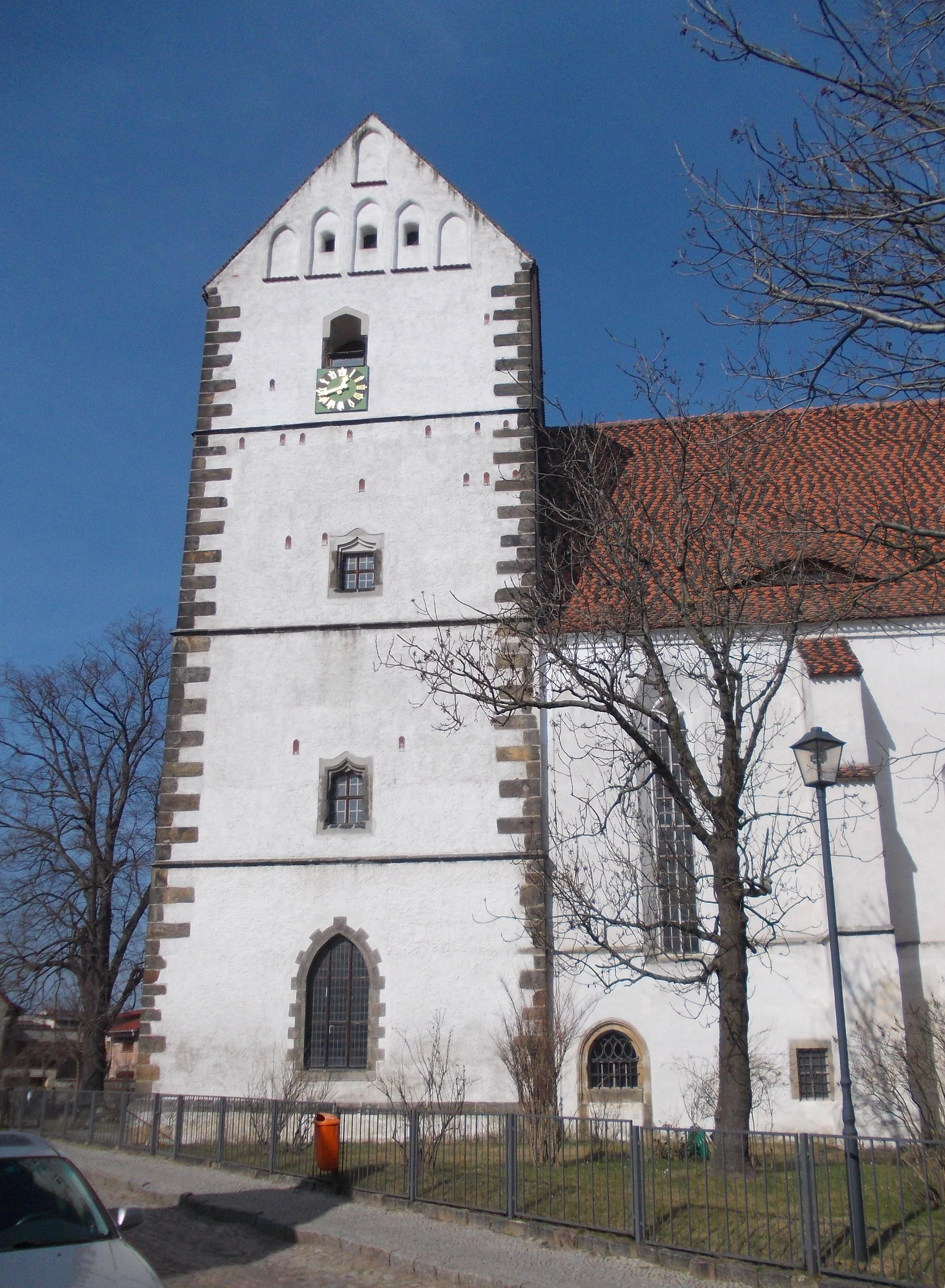 St. Bartholomew's Church in Belgern (Belgern-Schildau, Nordsachsen district, Saxony)